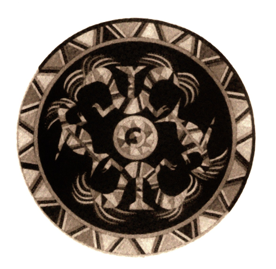 A maluana; closing-piece of the roof of Amerindian houses; painted with cosmological representations.